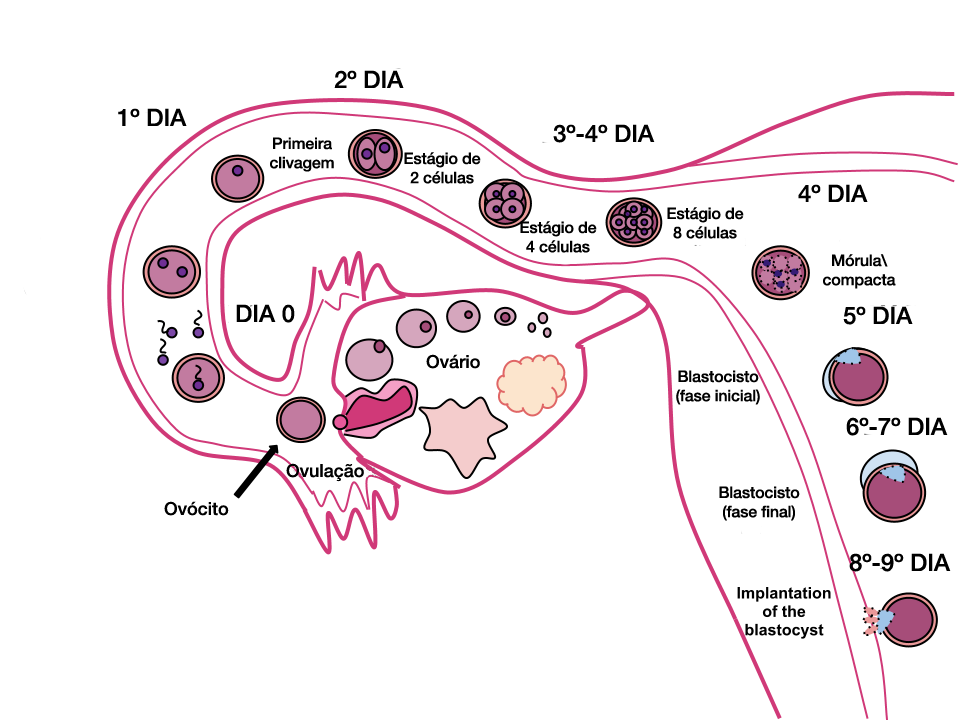 Human fertilization. Portuguese language version.